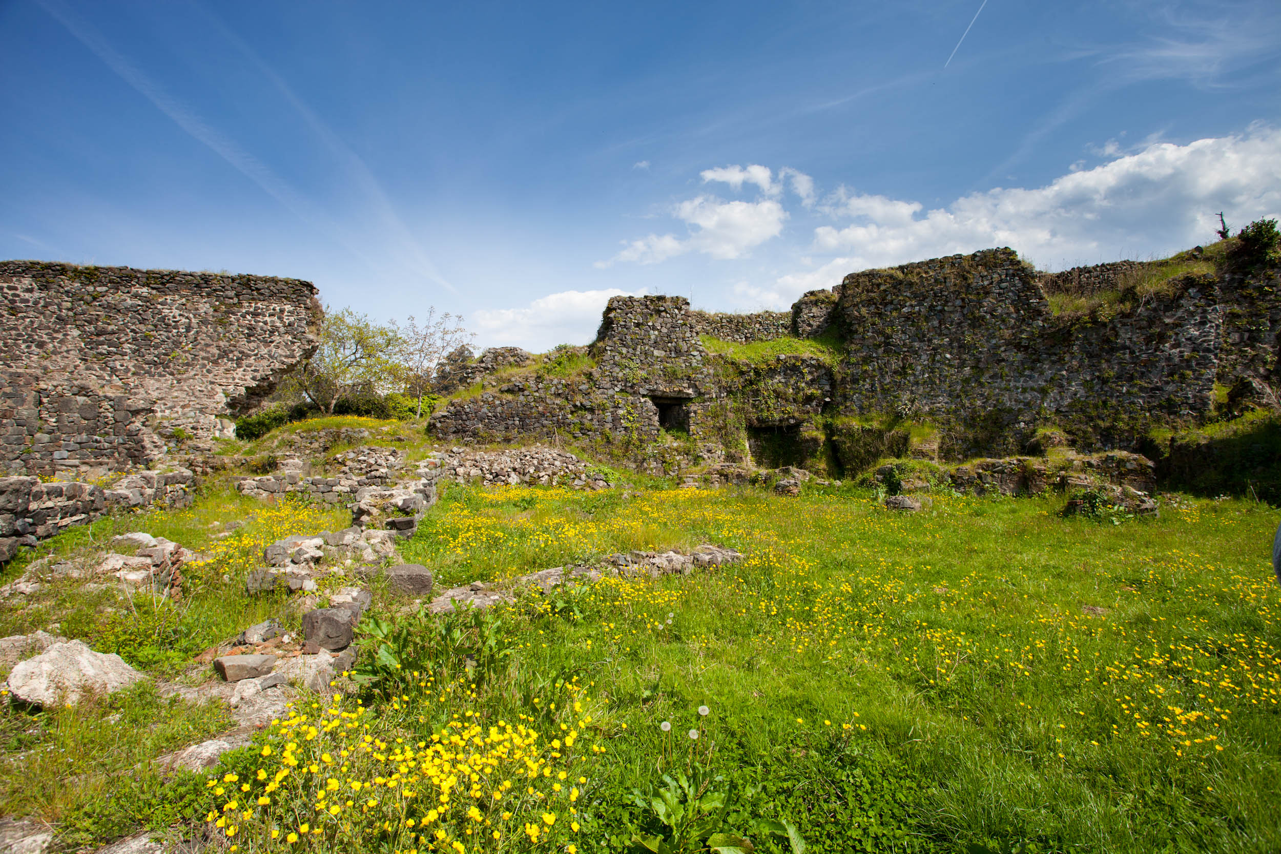 The Petra Fortress and ruins of the Church of St. John the Baptist (VI,XI-XIV centuries)